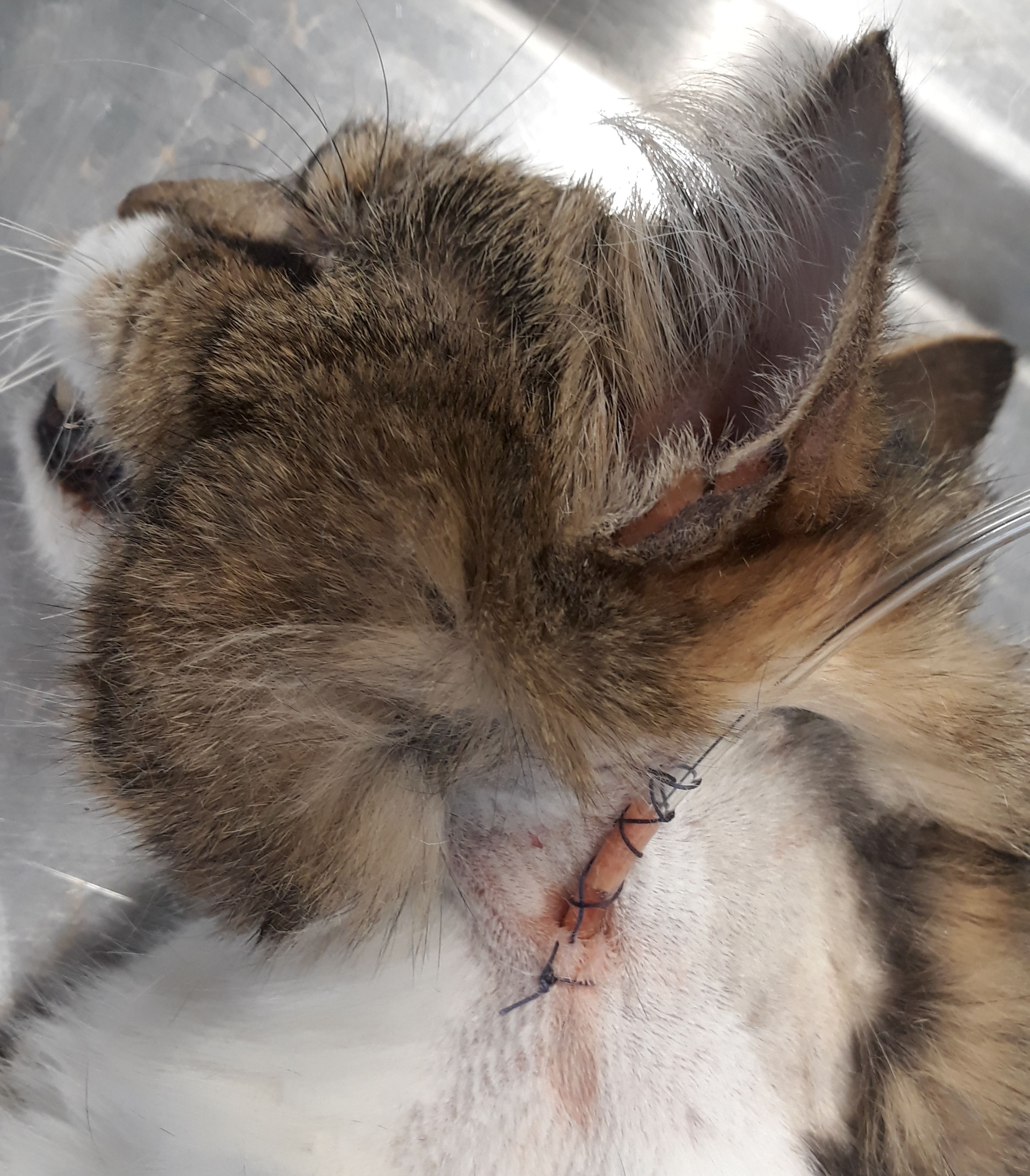 Chinese finger-trap suture pattern for tube fixation